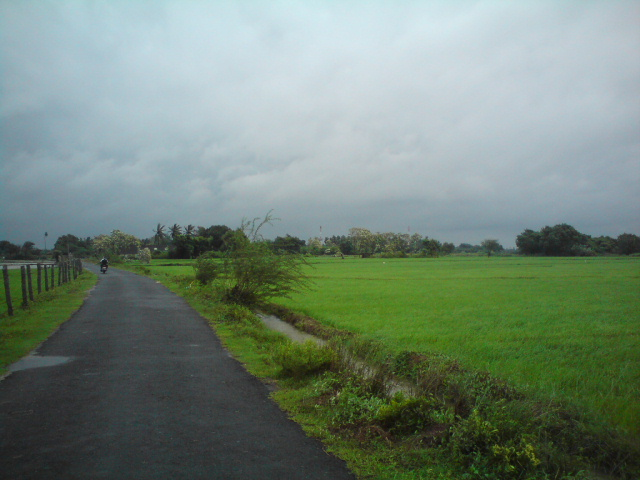 road to vedal on a monsoon day